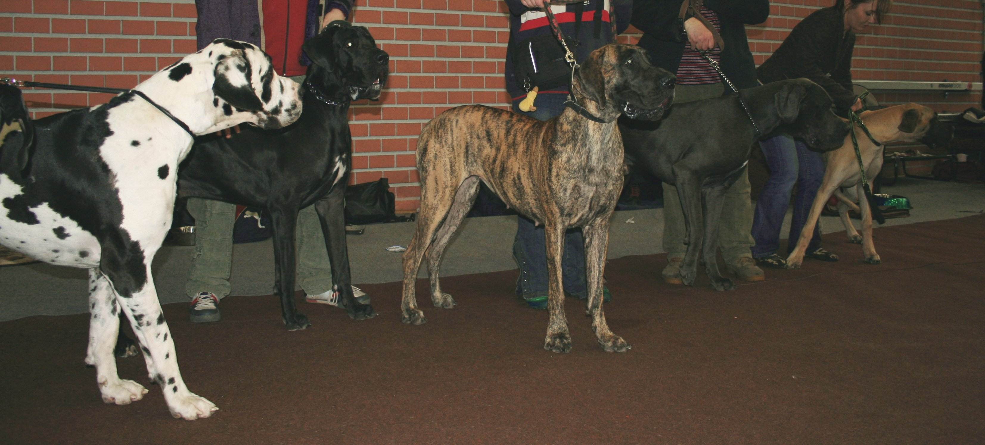 Great Danes, all types of colours, during dogs show in Katowice, Poland